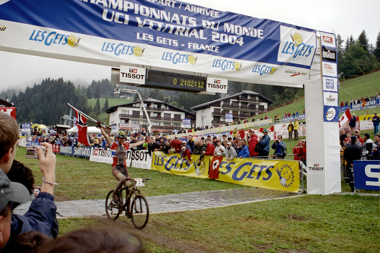 Gunn-Rita Dahle winning XC at 2004 UCI Mountain Bike and Trials World Championships at Les Gets, France